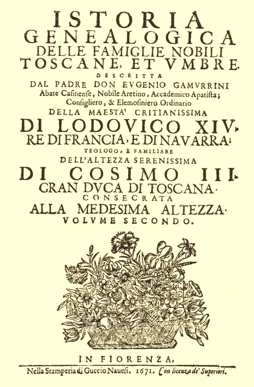 First page of Gamurrini study on Tuscan Families. The study was dedicated to Louis XIV of France and Gran Duke Cosimo III of Tuscany.